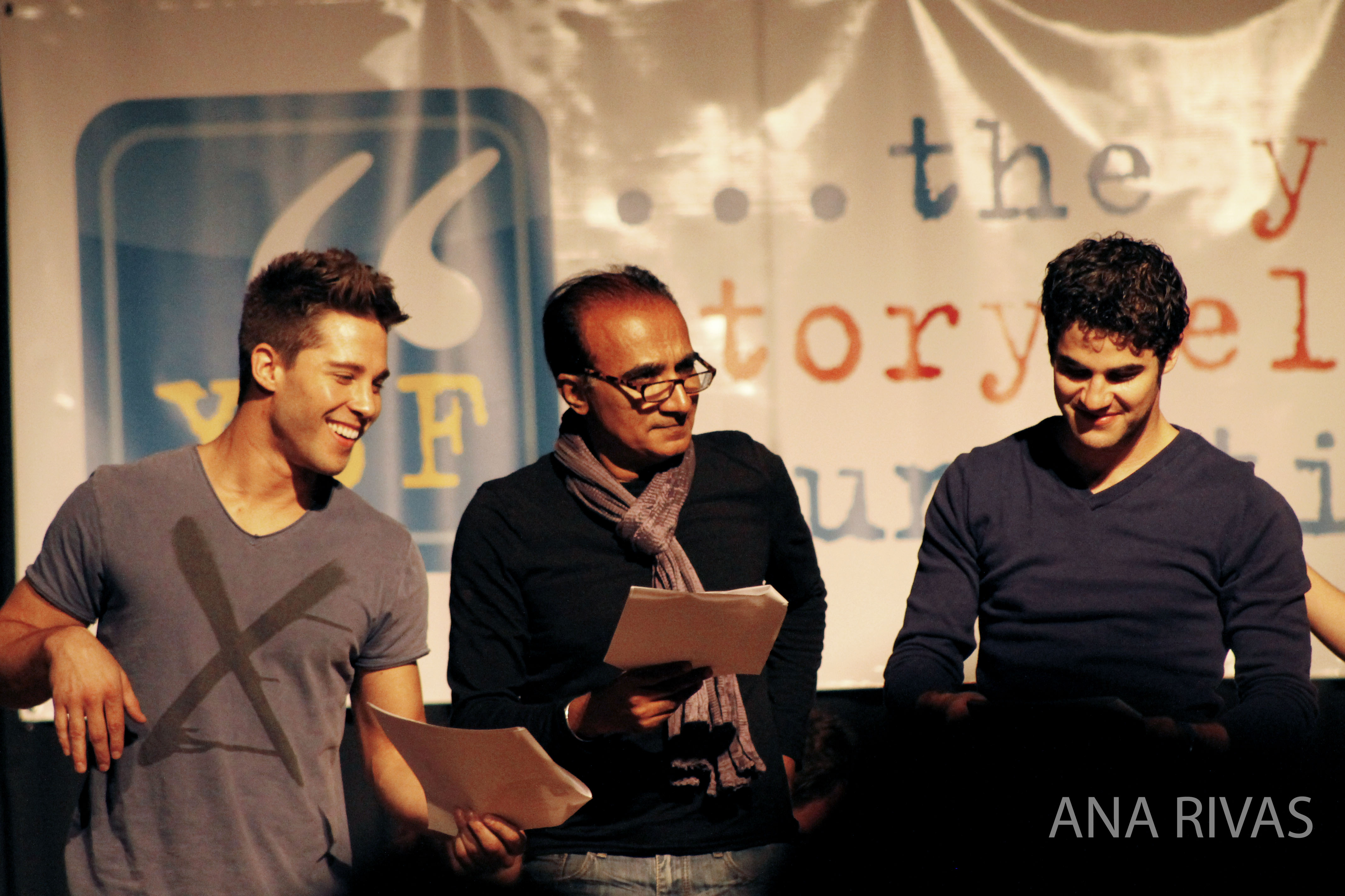 The Biggest Show October 21st, 2012 Culver City, CA